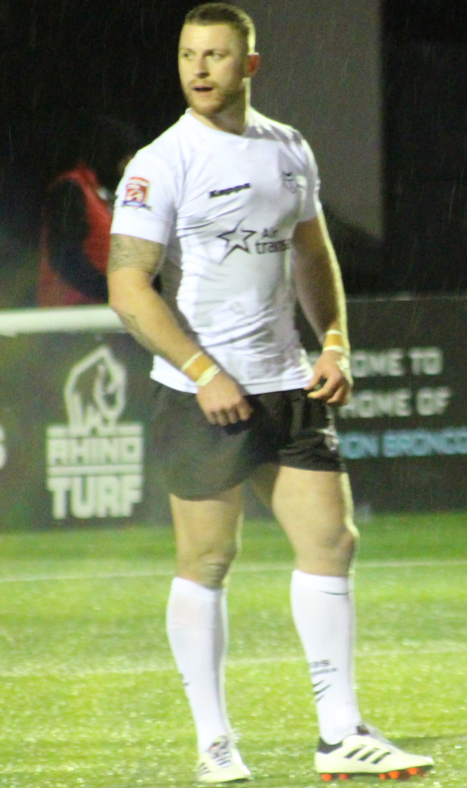 Adam Sidlow